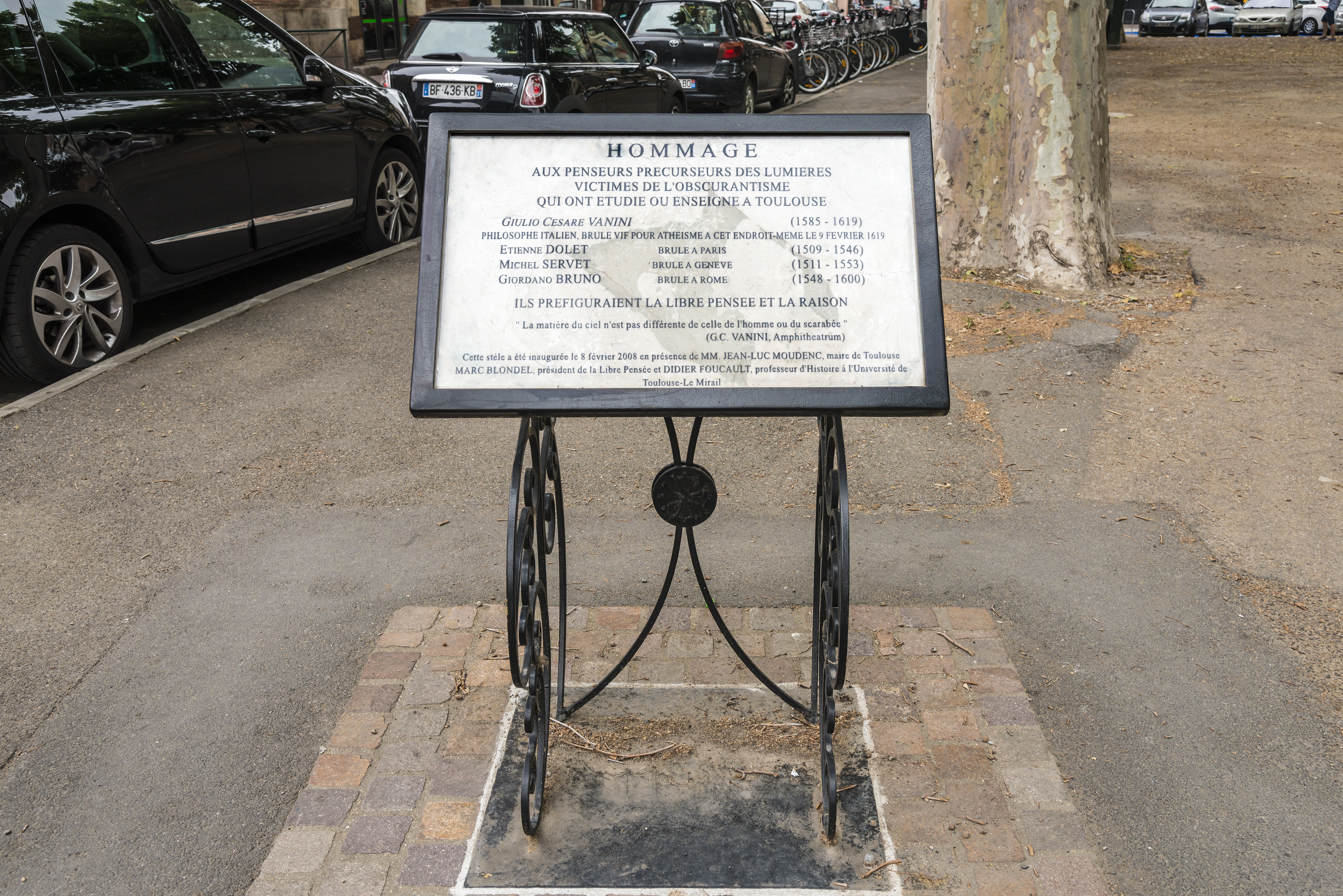 Plaque in honor of Giulio Cesare Vanini on the exact place of his execution : Place du Salin in Toulouse.